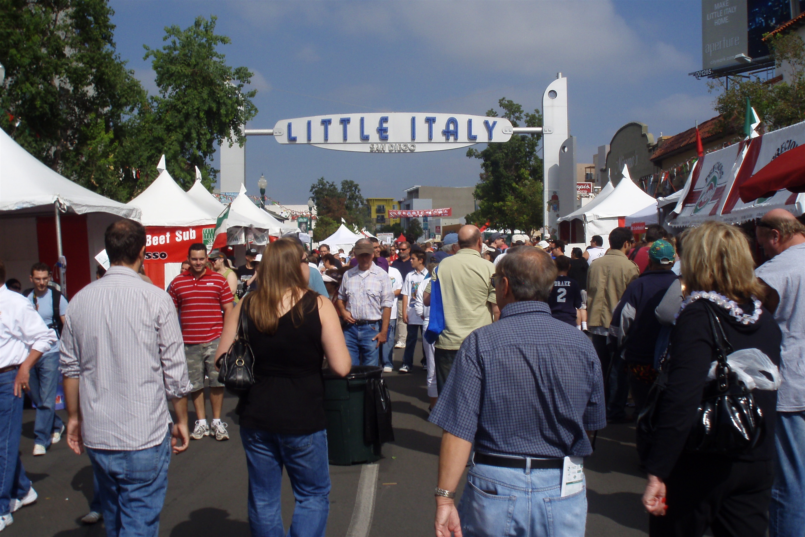 13th annual Precious Festa in Little Italy, San Diego, California.